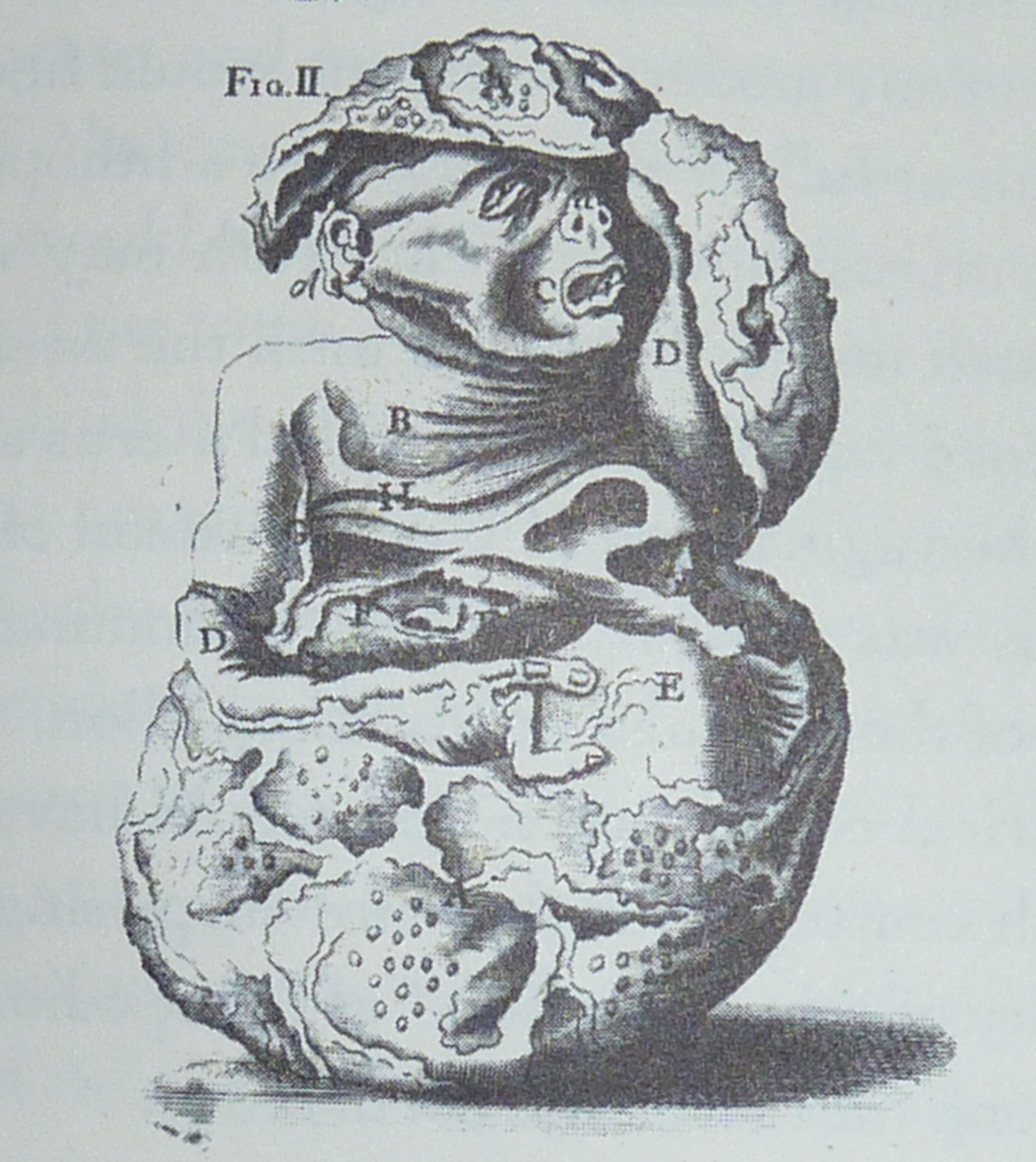 Steinkind von Leinzell, Phil. Transactions of the Royal Soc. of London 31, 1720-23